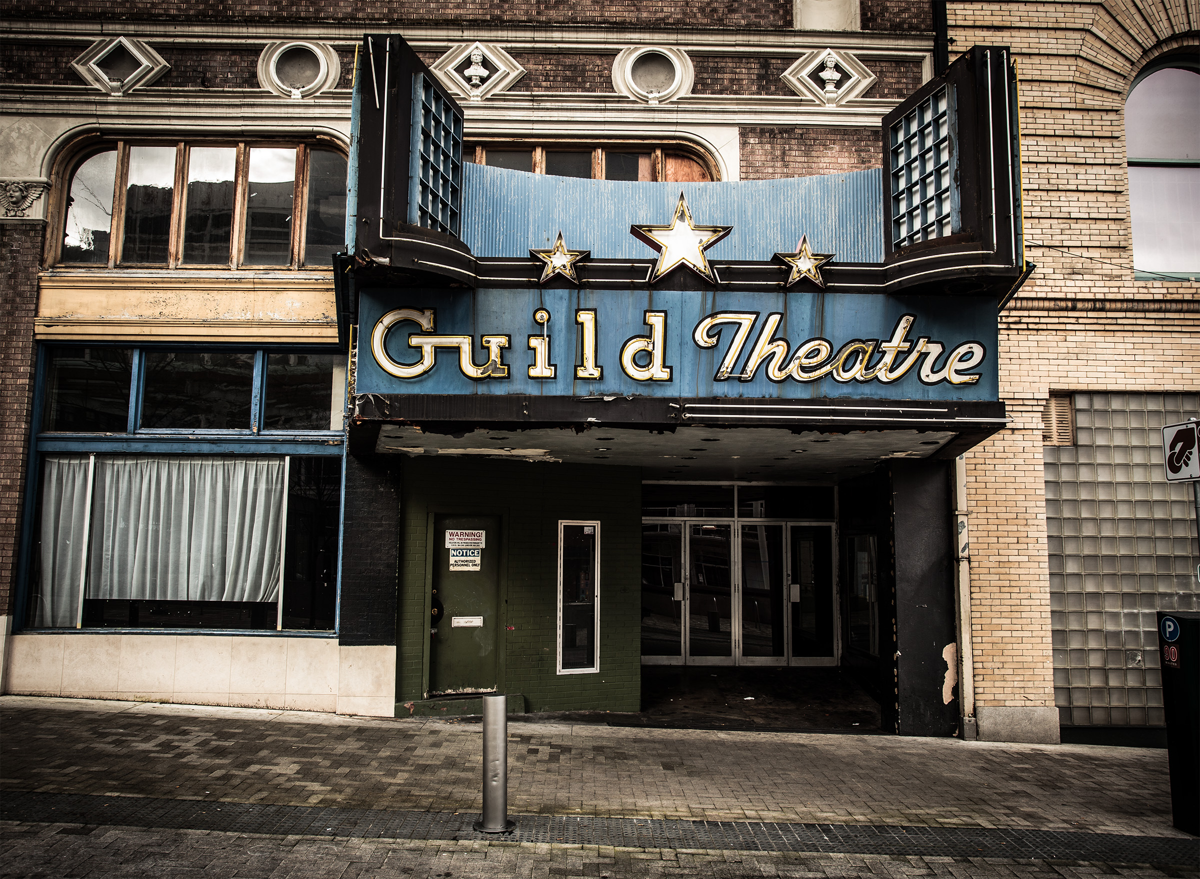 Portland, OR